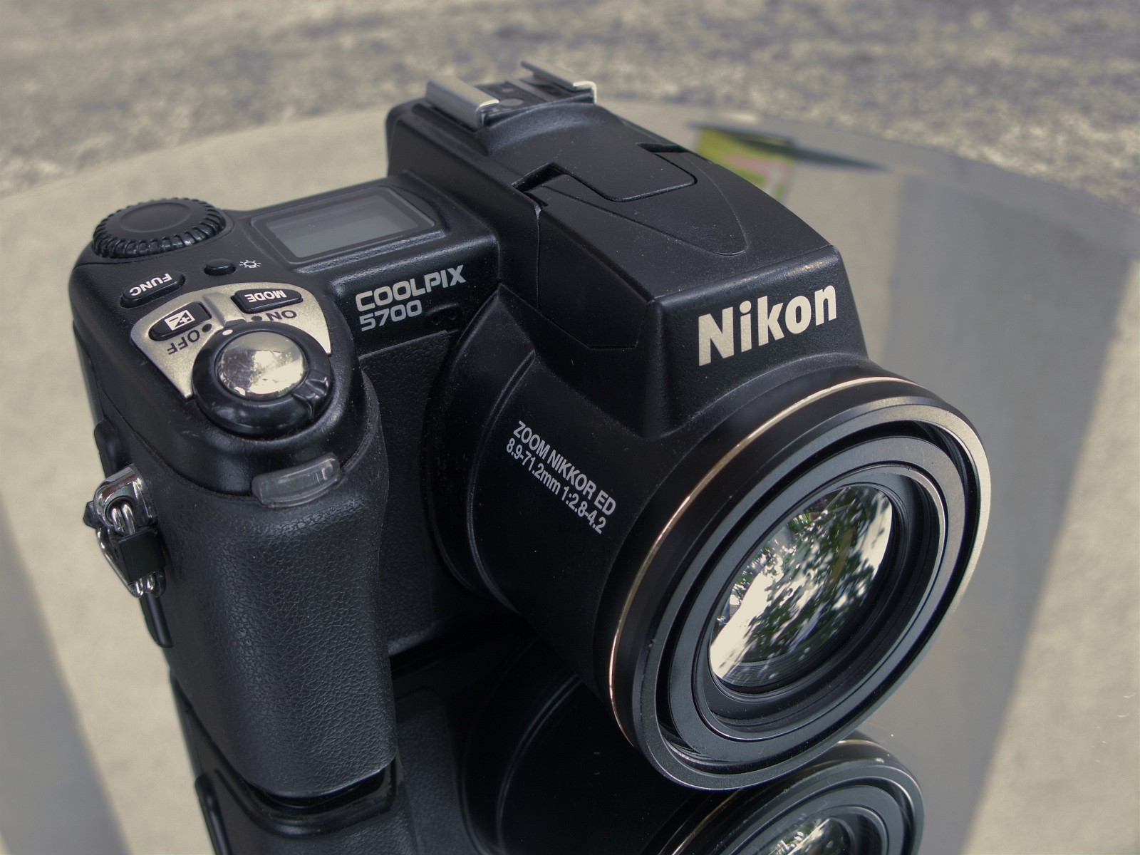 Photo of an E5700.